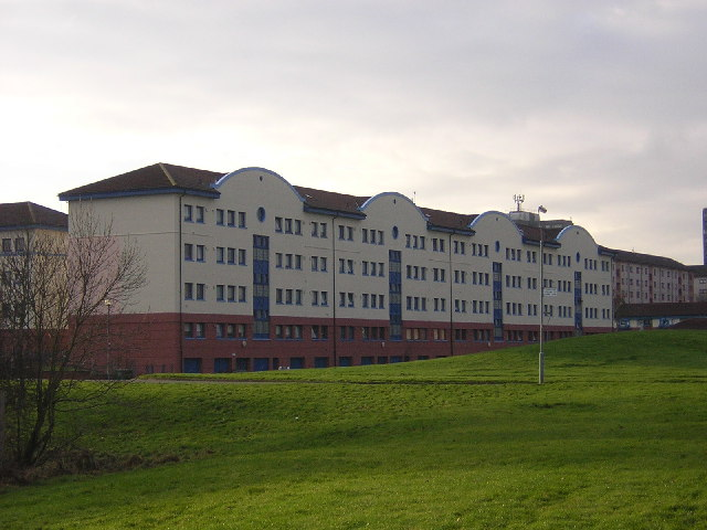 Flats Between Cathkin and Cambuslang.